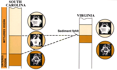 The study of layered rocks and the fossils they contain is called biostratigraphy. Fossils can be used to recognize rock layers of the same or different ages. The pictures of the fossils of monocellular algae in this figure were taken with a scanning electron microscope and have been magnified 250 times. In the U.S. state of South Caroline three species of fossil algae are found in a core of rock whereas in Virginia only two species are found. The missing of one species shows that the rock record from the early part of the middle Eocene is missing there. With the remaining species it is possible to correlate rock layers of the same age (early Eocene and latter part of the middle Eocene) in both South Carolina and Virginia. Original figure altered.